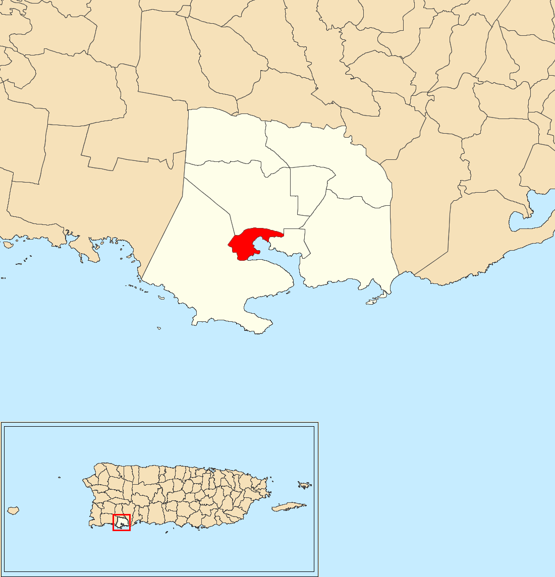 Ensenada, Guánica, Puerto Rico locator map